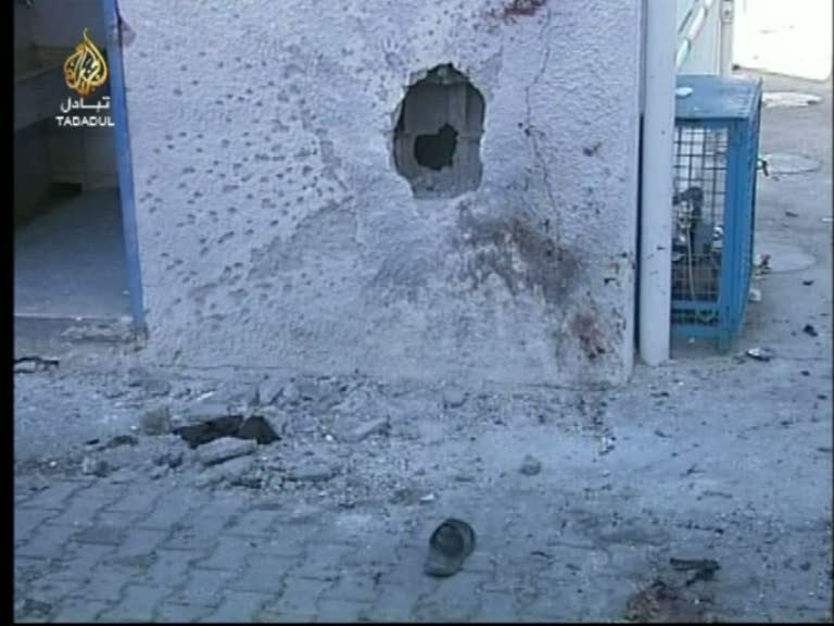 A shot of the aftermath on UNRWA school after the Israeli attack.